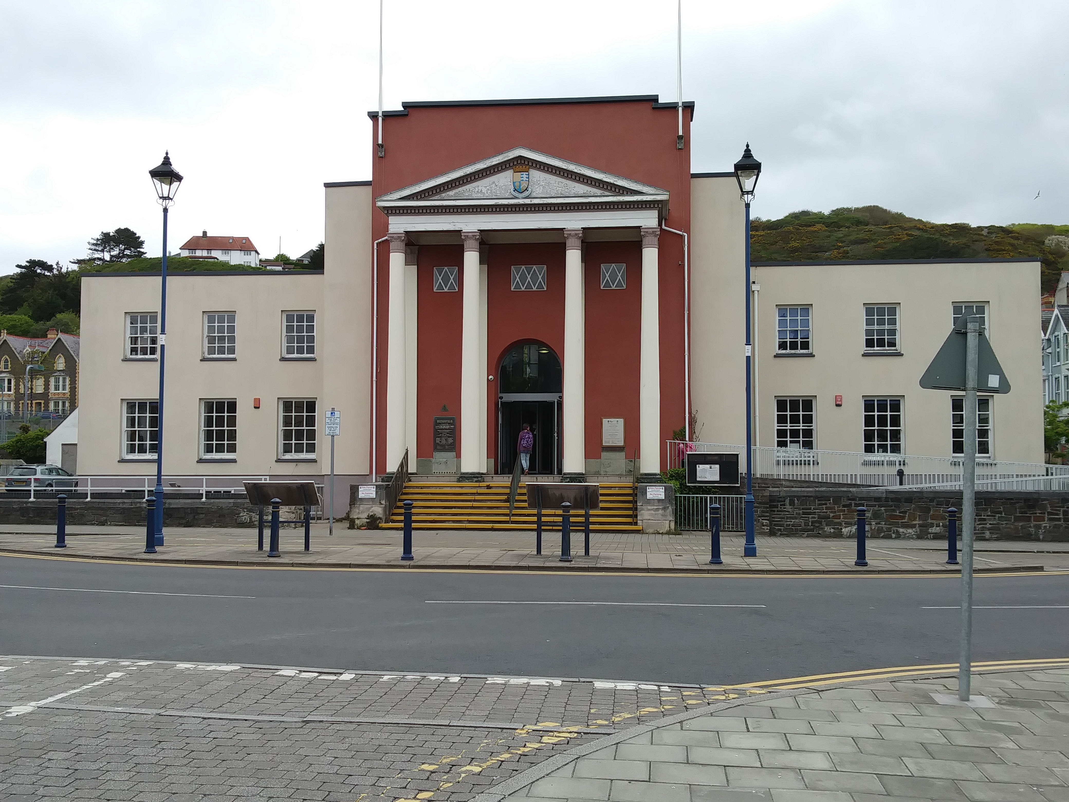 Llyfrgell Tref Aberystwyth (Mai 2018)